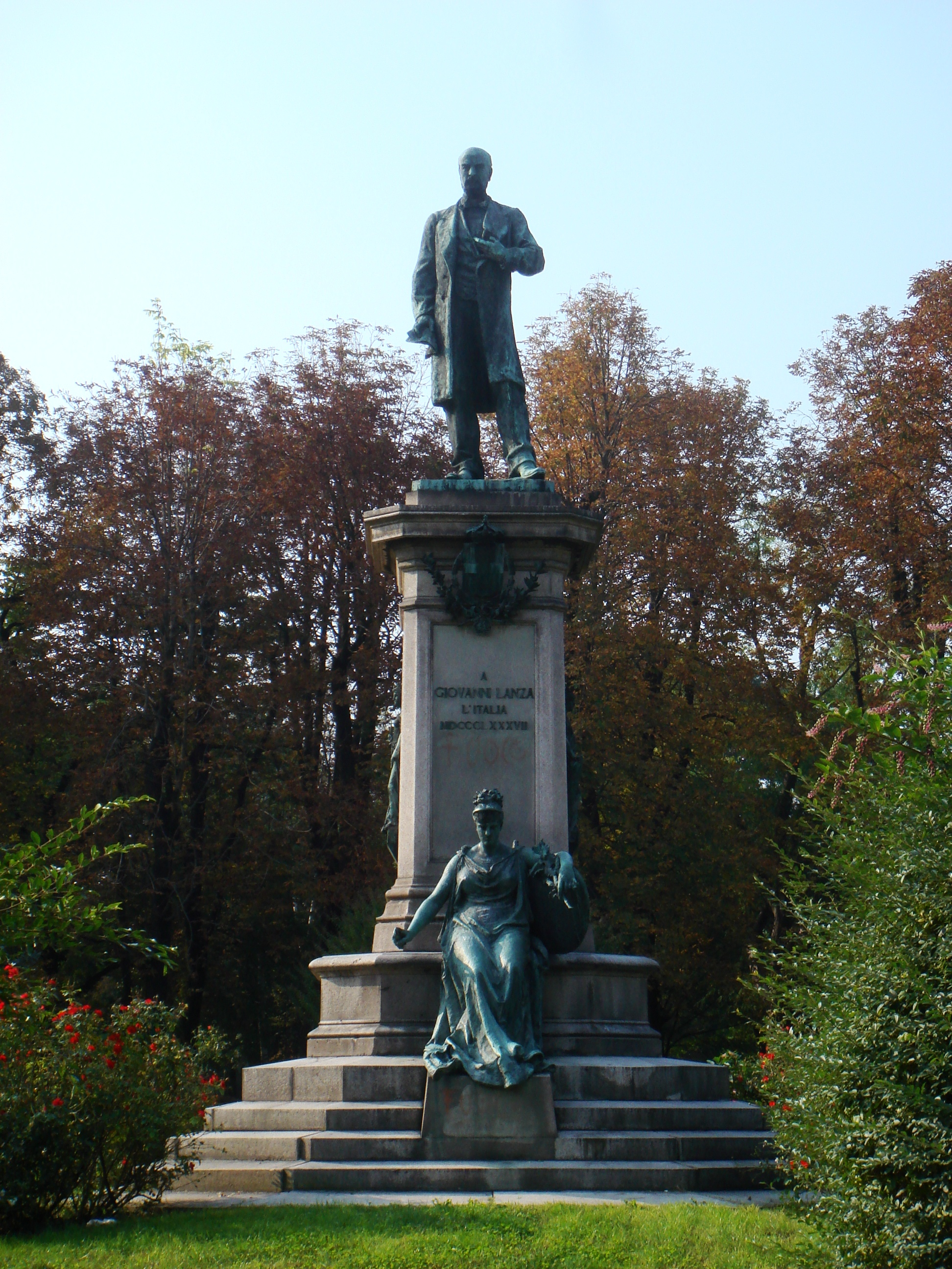 Monument for Giovanni Lanza. Picture by Stefano Bolognini.